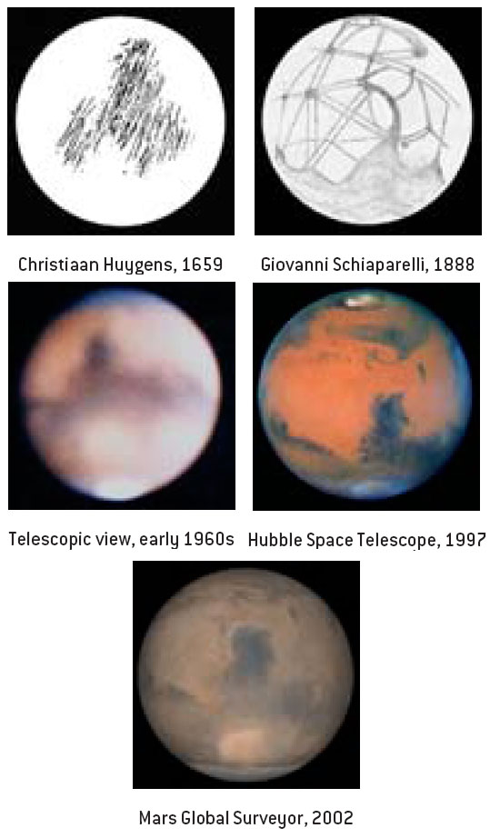 Images of Mars over the years with varying detail.